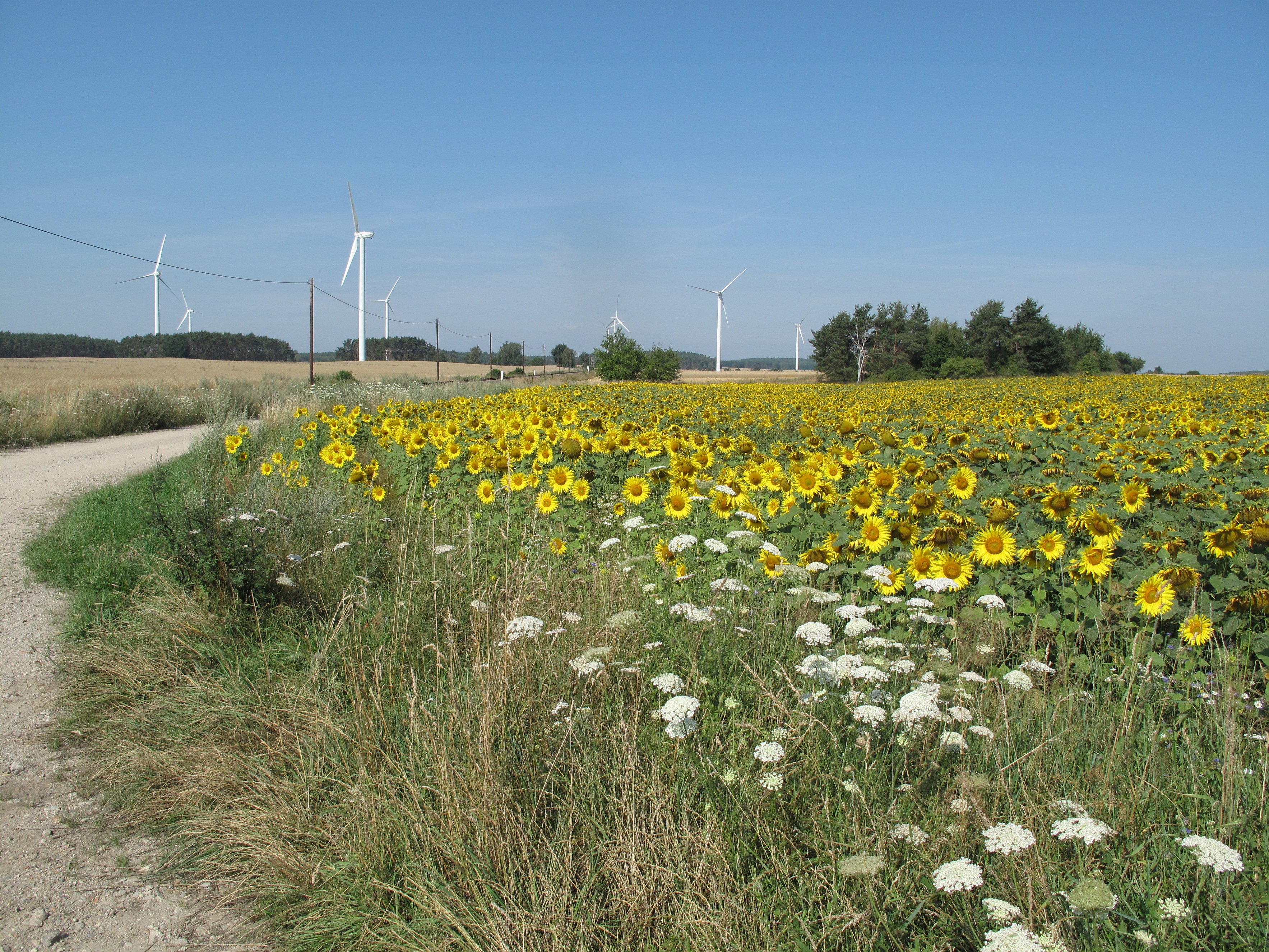 View over a sunflower-field nearby the Railway line Königs Wusterhausen–Grunow in the west of the Lindenberger Viadukt to Glienicke. The village Glienicke is a part of the municipality Rietz-Neuendorf in the District Oder-Spree, Brandenburg, Germany.